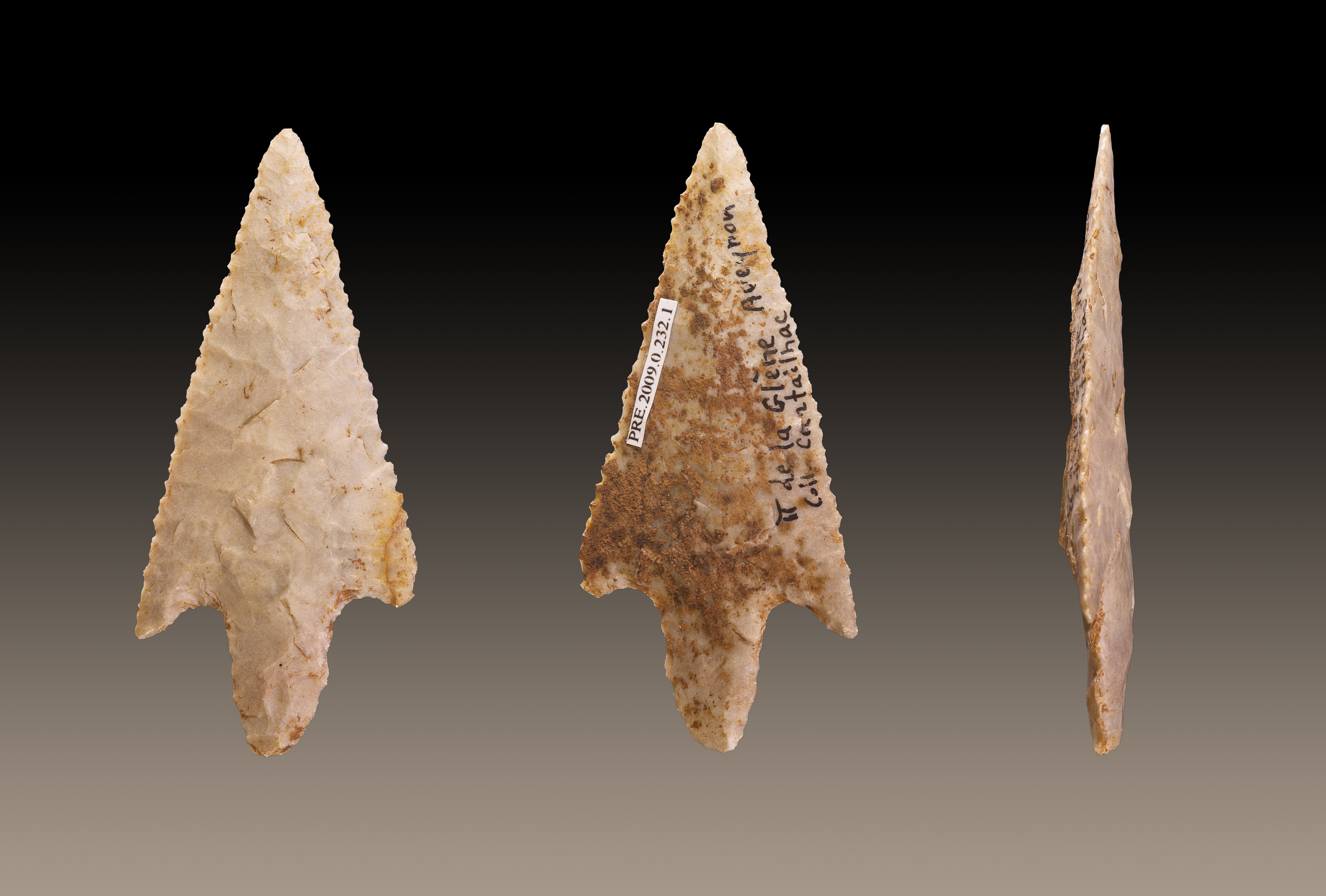 Arrowhead in Chert. Different views of the same specimen Stage : Later Neolithic (Rhodézien) (to – 3300 to - 2400 Before the Current Era) Locality : Dolmen de la Glène, Saint-Léons, Aveyron, France Former collection of Émile Cartailhac (1845 - 1921) Size : 58x27x7 mm